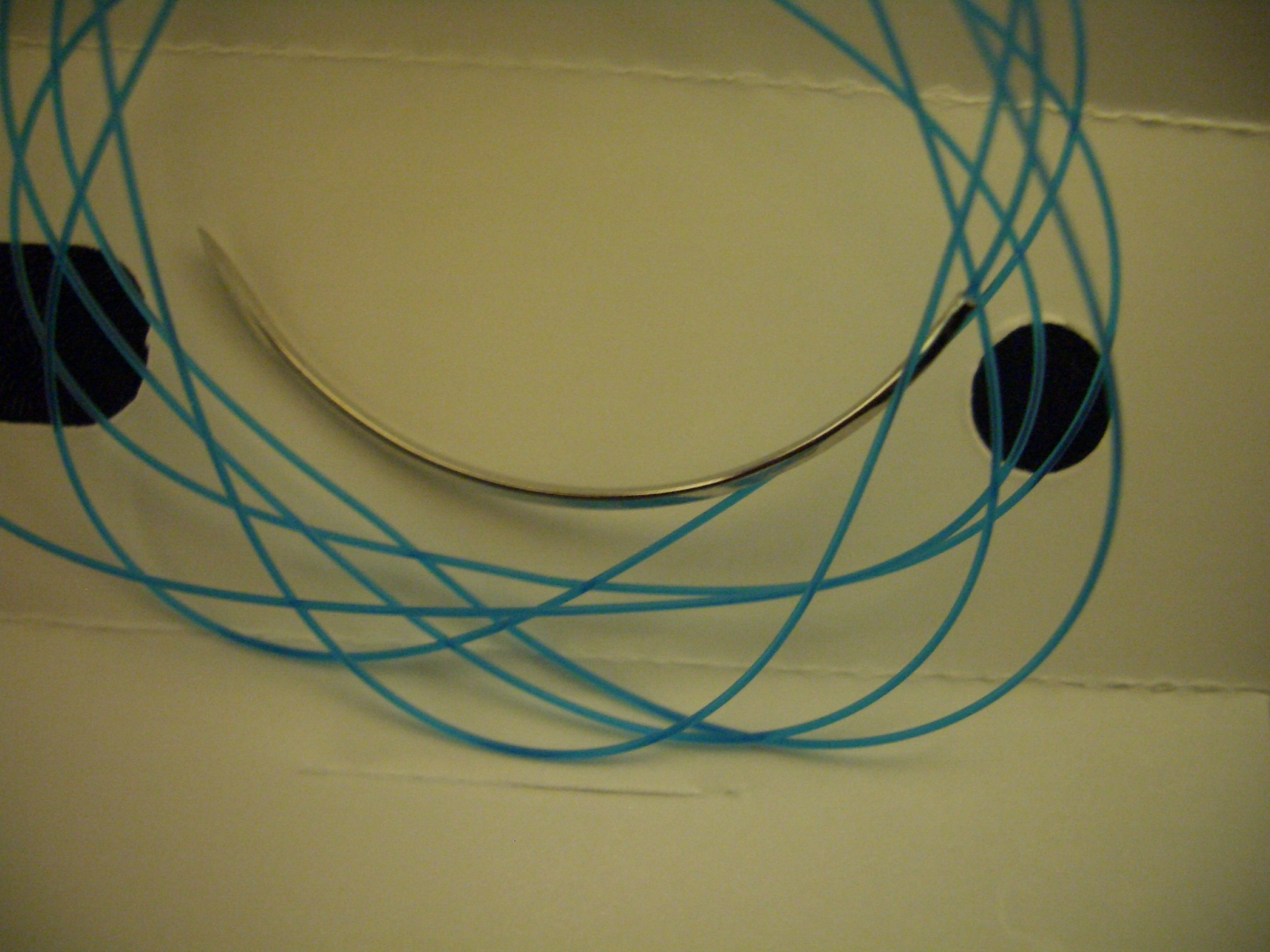 Surgical suture is a medical device used to hold body tissues together after an injury or surgery.